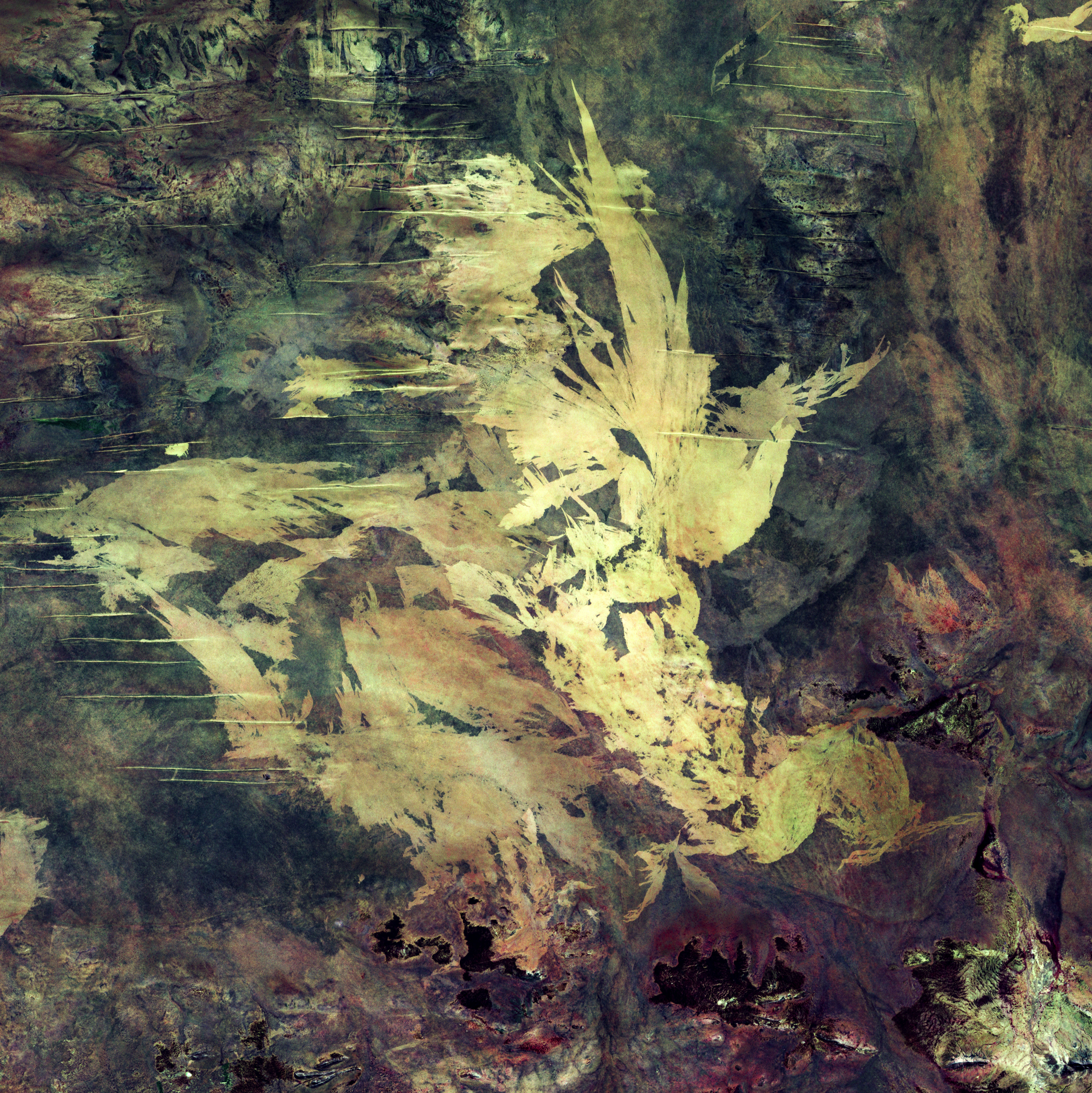 Great Sandy Scars. – In a small corner of the vast Great Sandy Desert in Western Australia, large sand dunes -the only sand in this desert of scrub and rock- appear as lines stretching from left to right. The light-colored fan shapes are scars from wildfires.